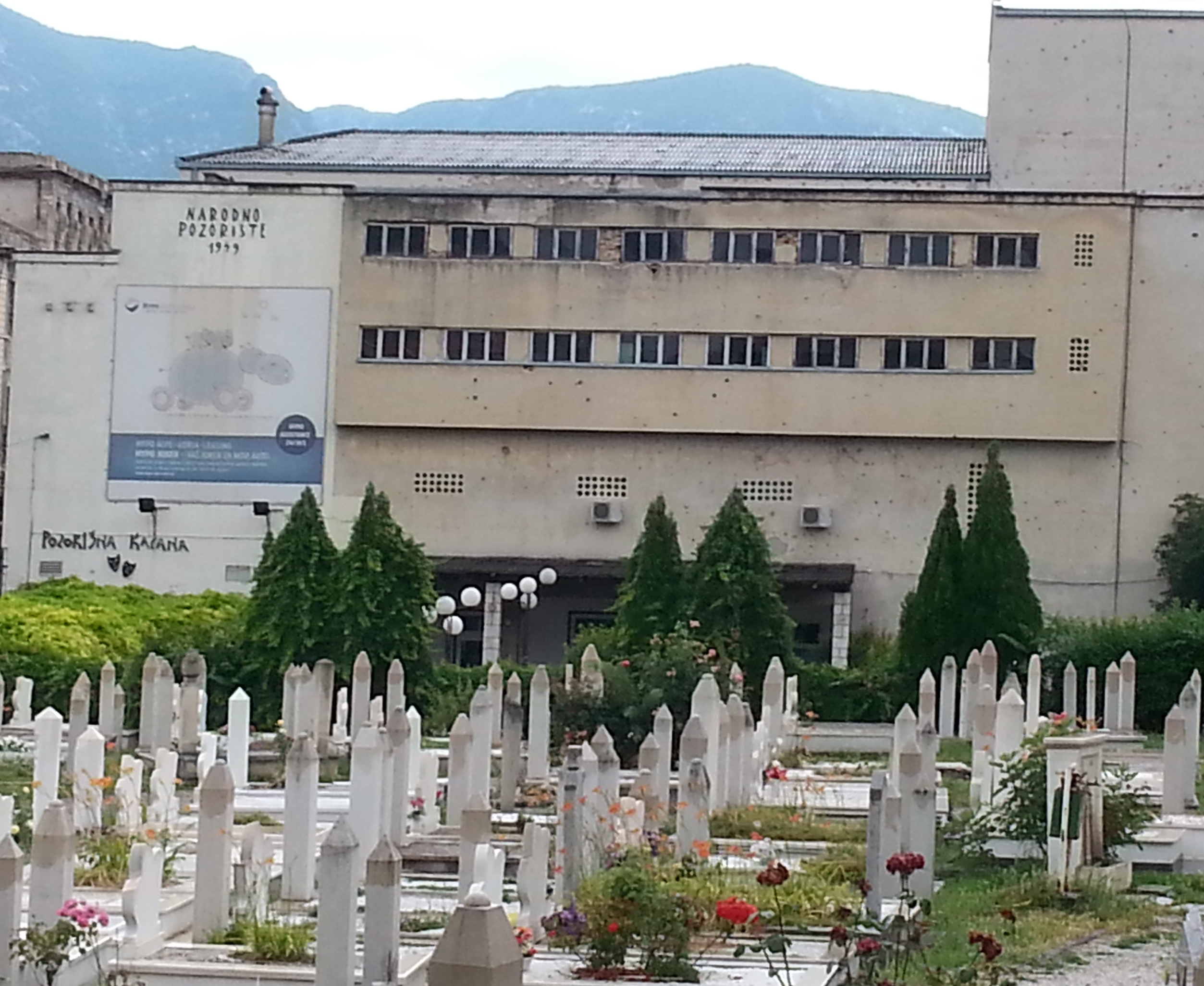 National Theatre Mostar